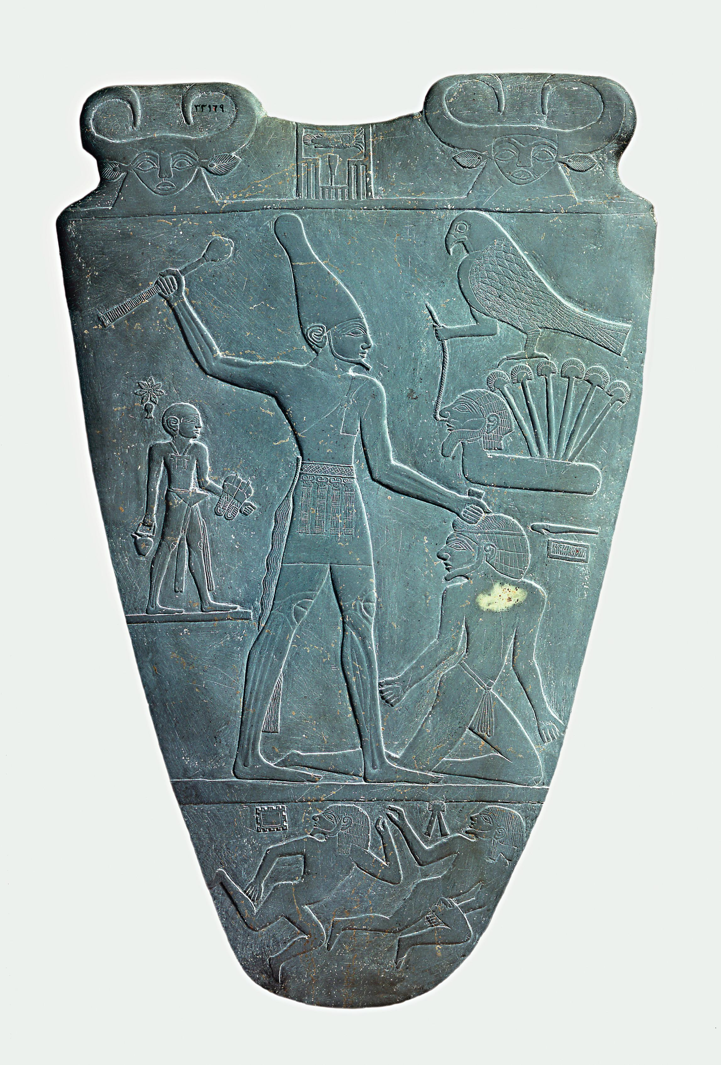 The smiting side of the Narmer Palette